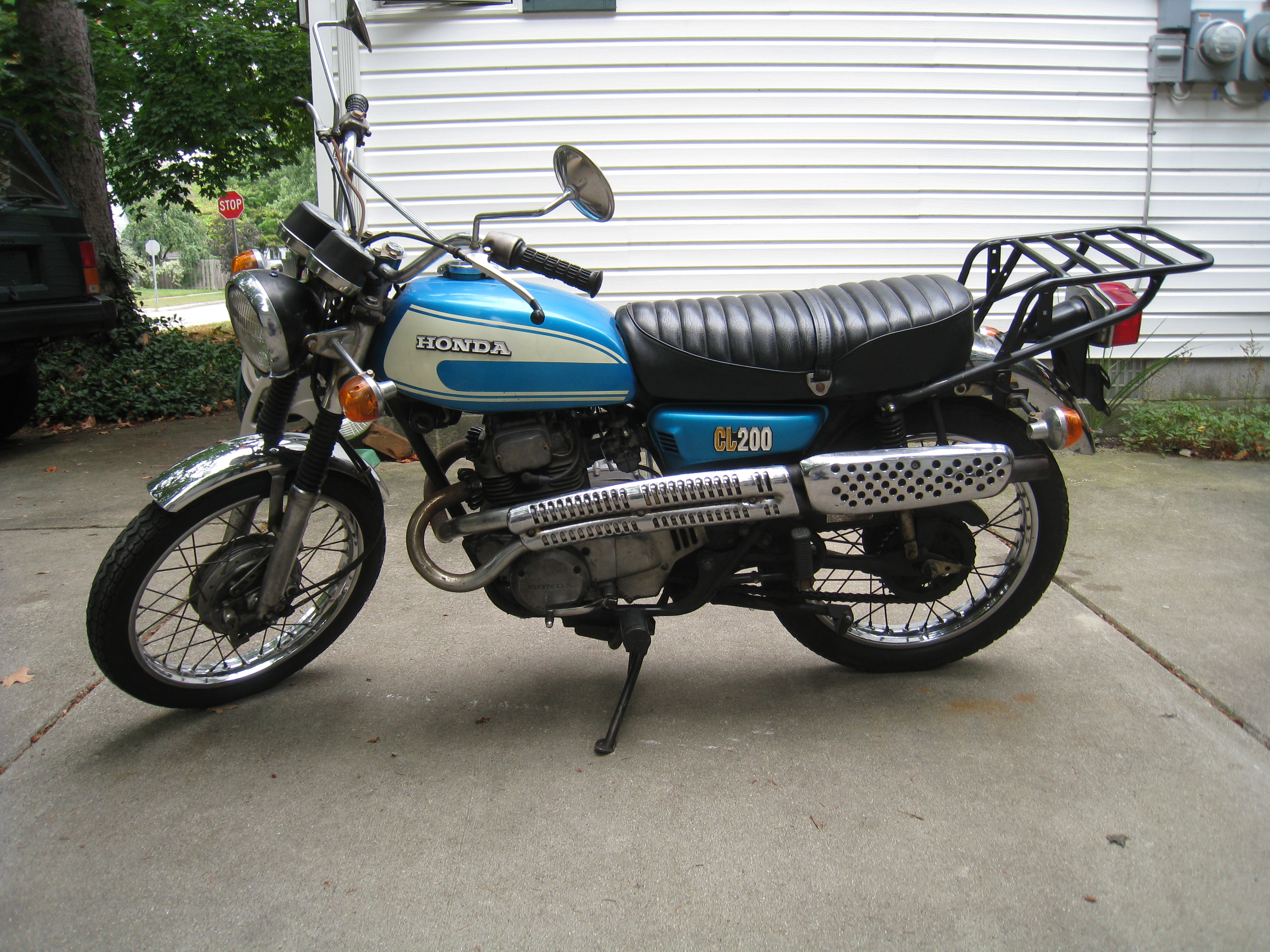 Honda CL200 1974 Motorcycle.